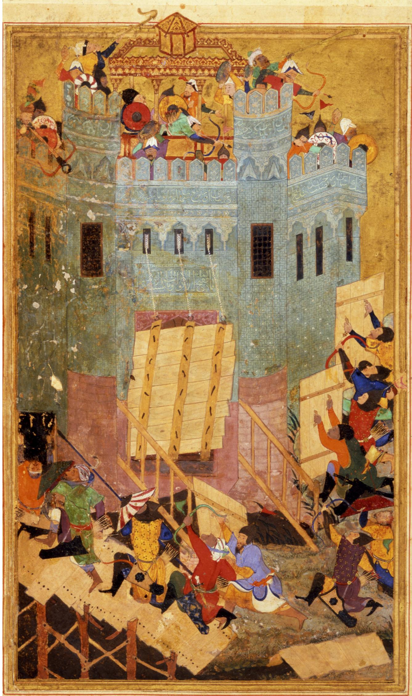 the Siege of Smyrna of 1402, from a manuscript of the Zafaranama (c.1467), a biography of Timur, illustrated by Kamāl ud-Dīn Behzād (c. 1450 – c. 1535), now in the John Work Garrett Library (MS 3) of Johns Hopkins University.